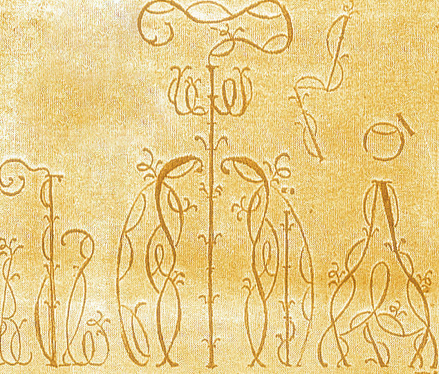 Writings of Vera the Silent